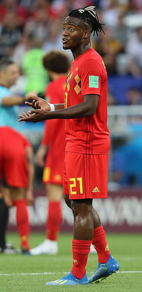 Michy Batshuayi